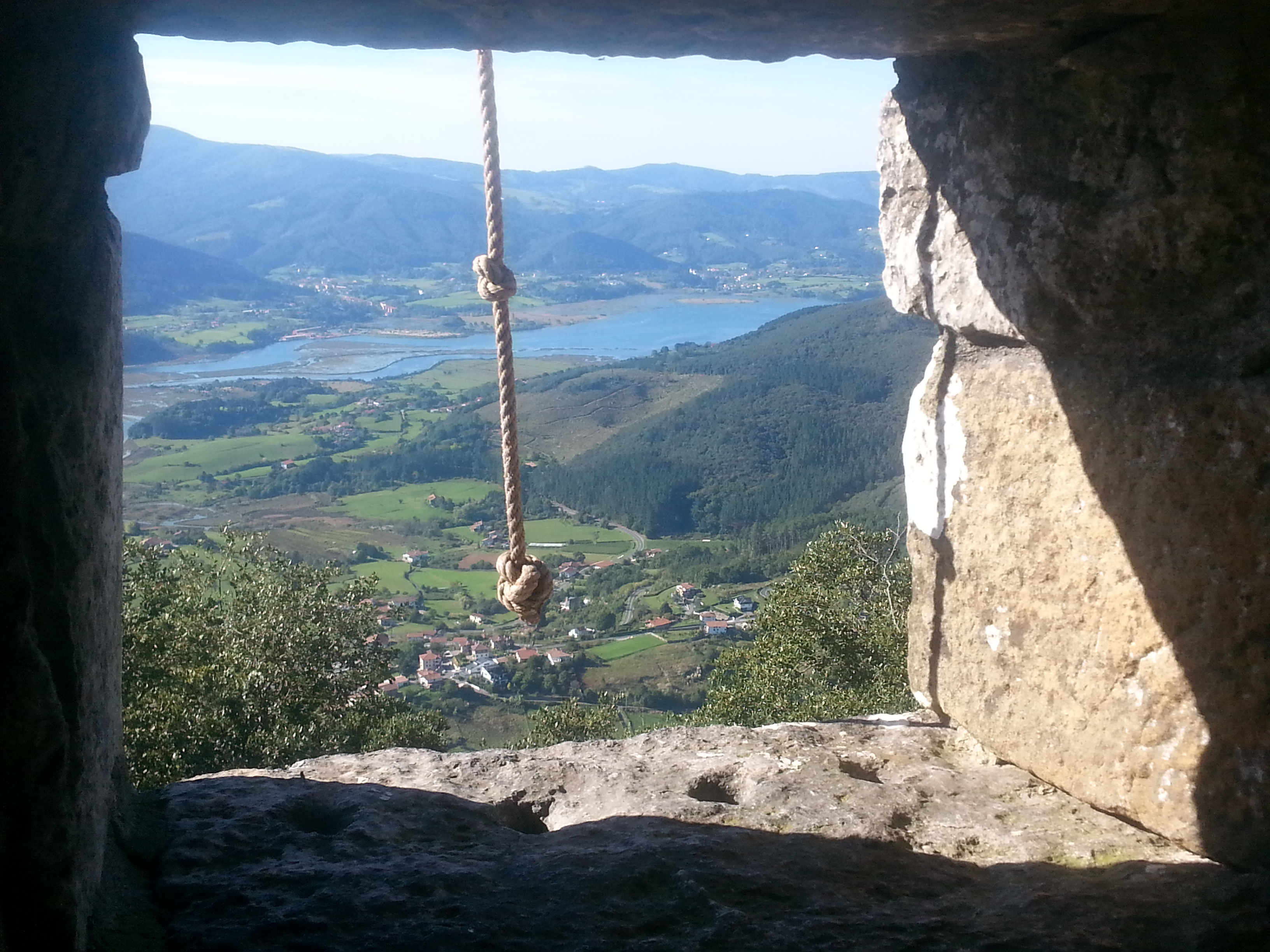 Urdaibai landscape from a window. Ereñozar hill. San Migel country church. Biscay.